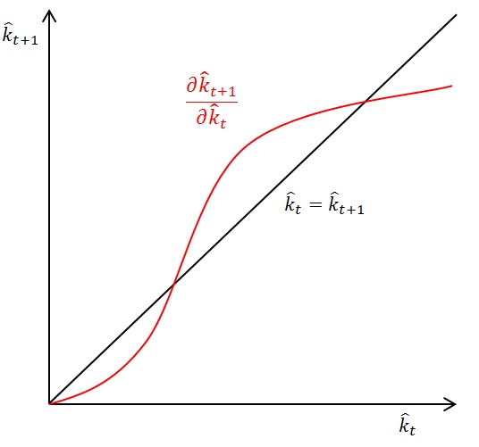 Phase diagram, Overlapping generations model, option 2